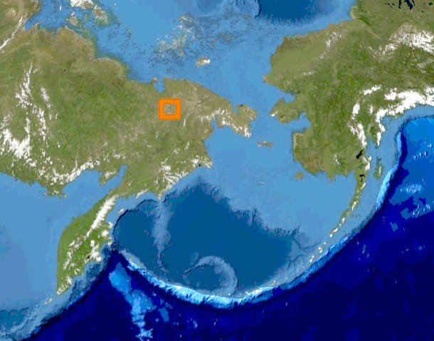 Location of Elgygytgyn Lake. NASA Blue Marble image.